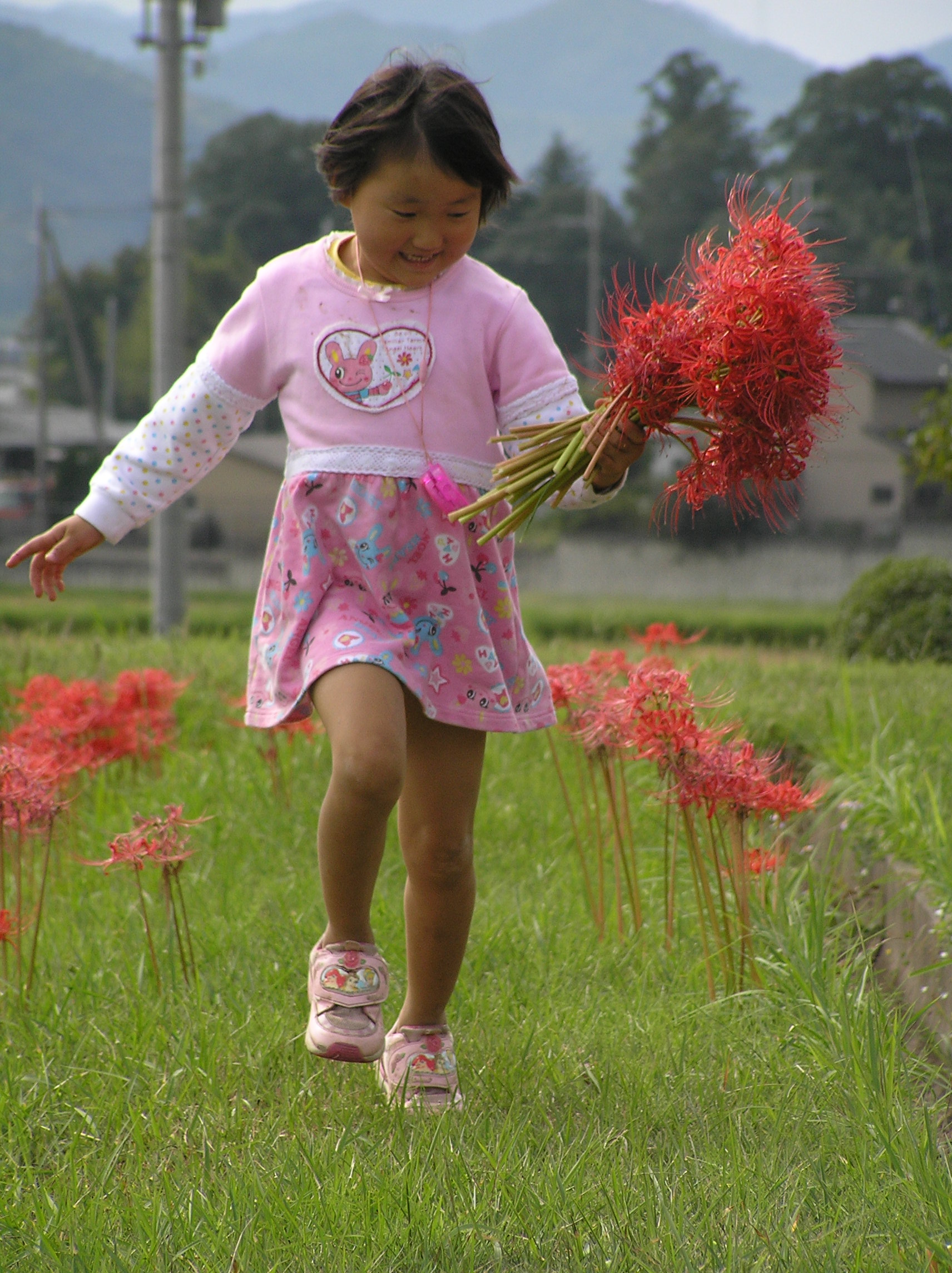 彼岸花と少女。Girl with red spider lily.